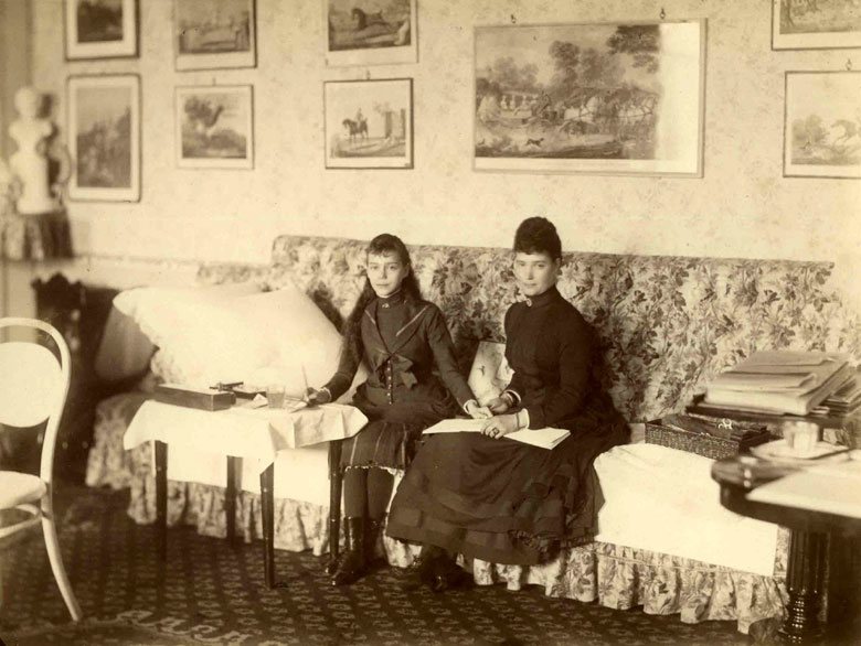 Empress Mariya Fyodorovna and Grand Duchess Xenia Alexandrovna in Anichkov Palace